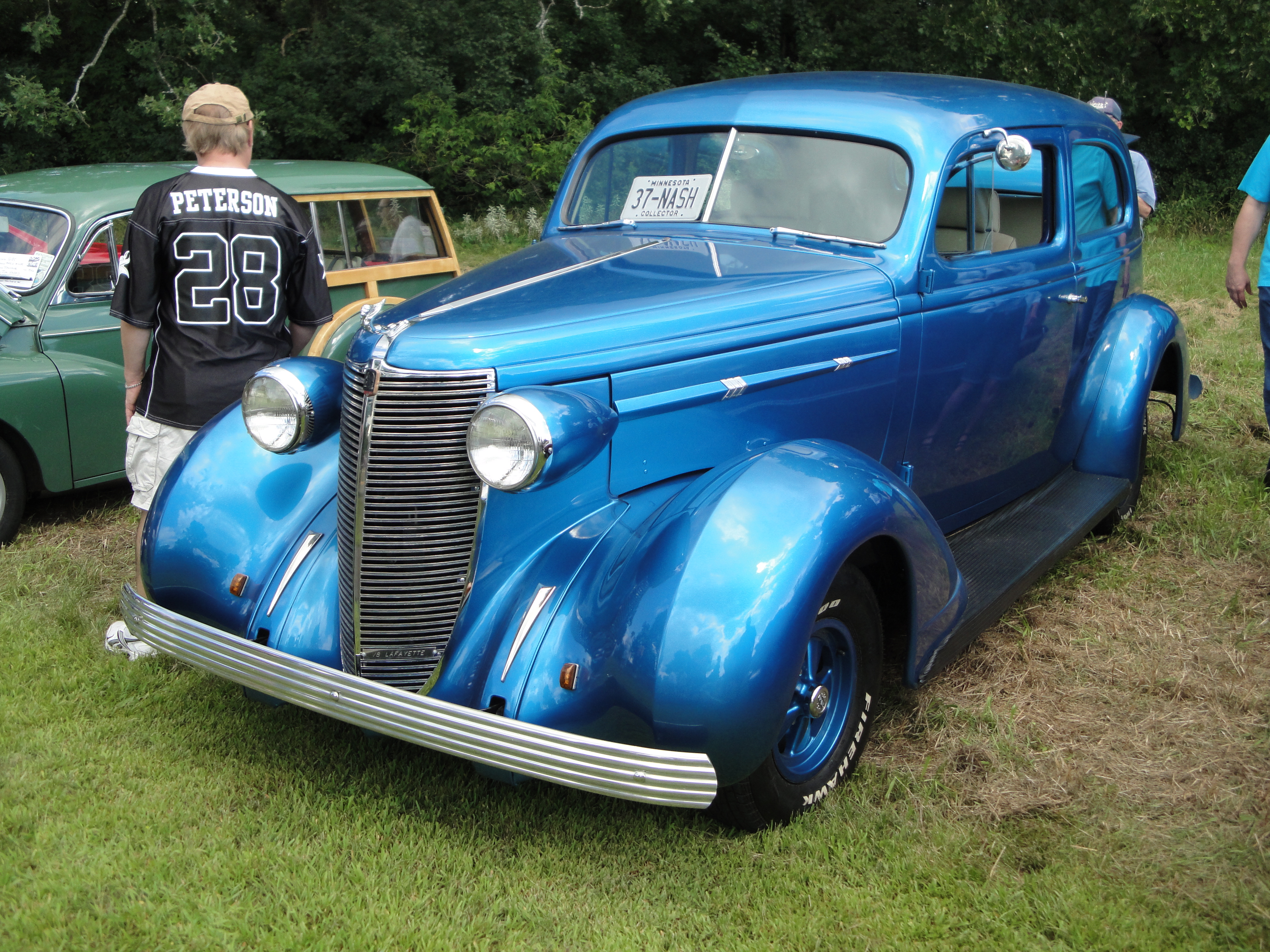 Silver Anniversary New London to New Brighton Antique Car Run Stockyard Days Car Show New Brighton Minnesota